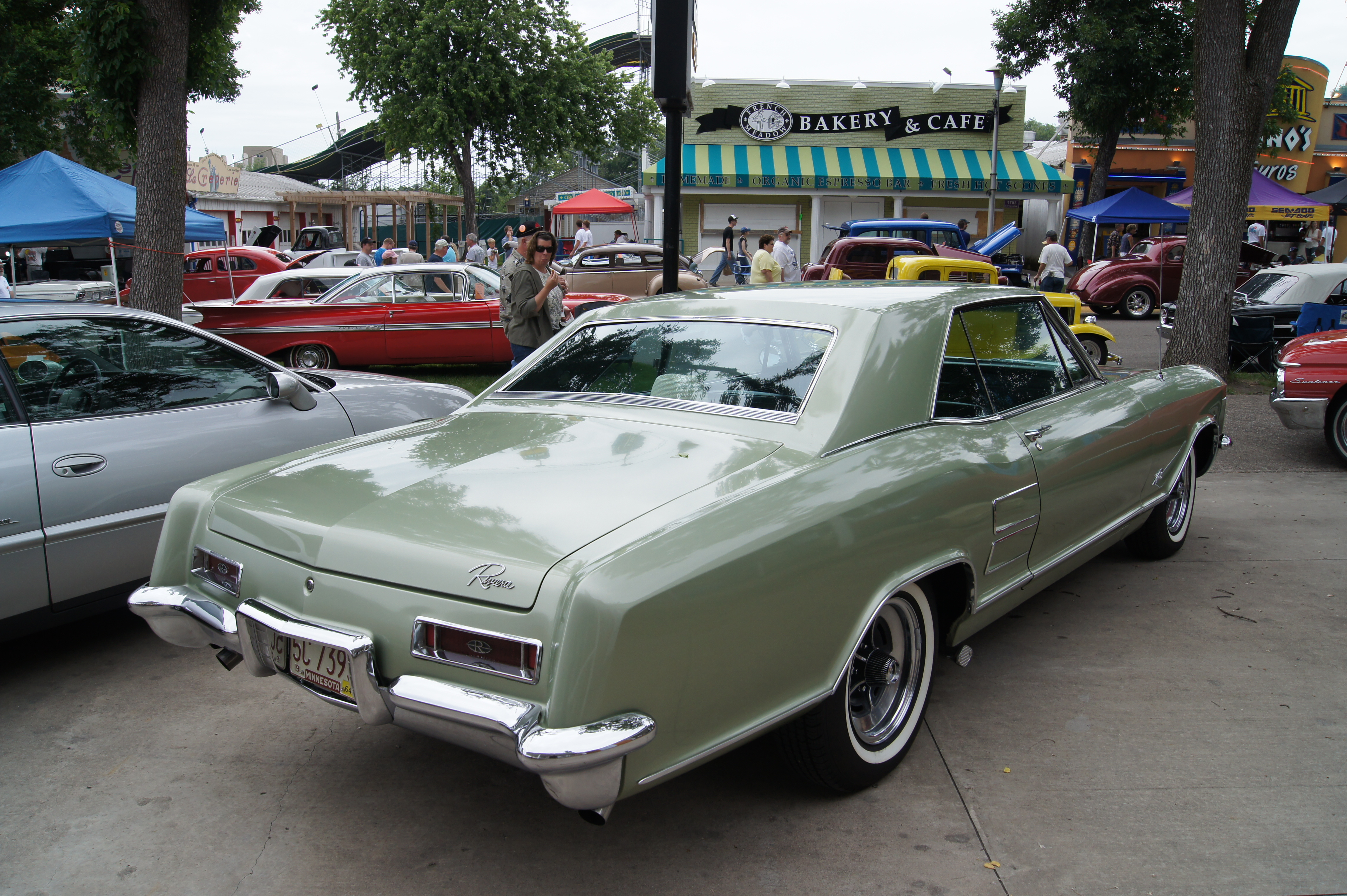 Minnesota Street Rod Association 39th Annual "Back to the Fifties" June 2012 Minnesota State Fairgrounds St. Paul MN